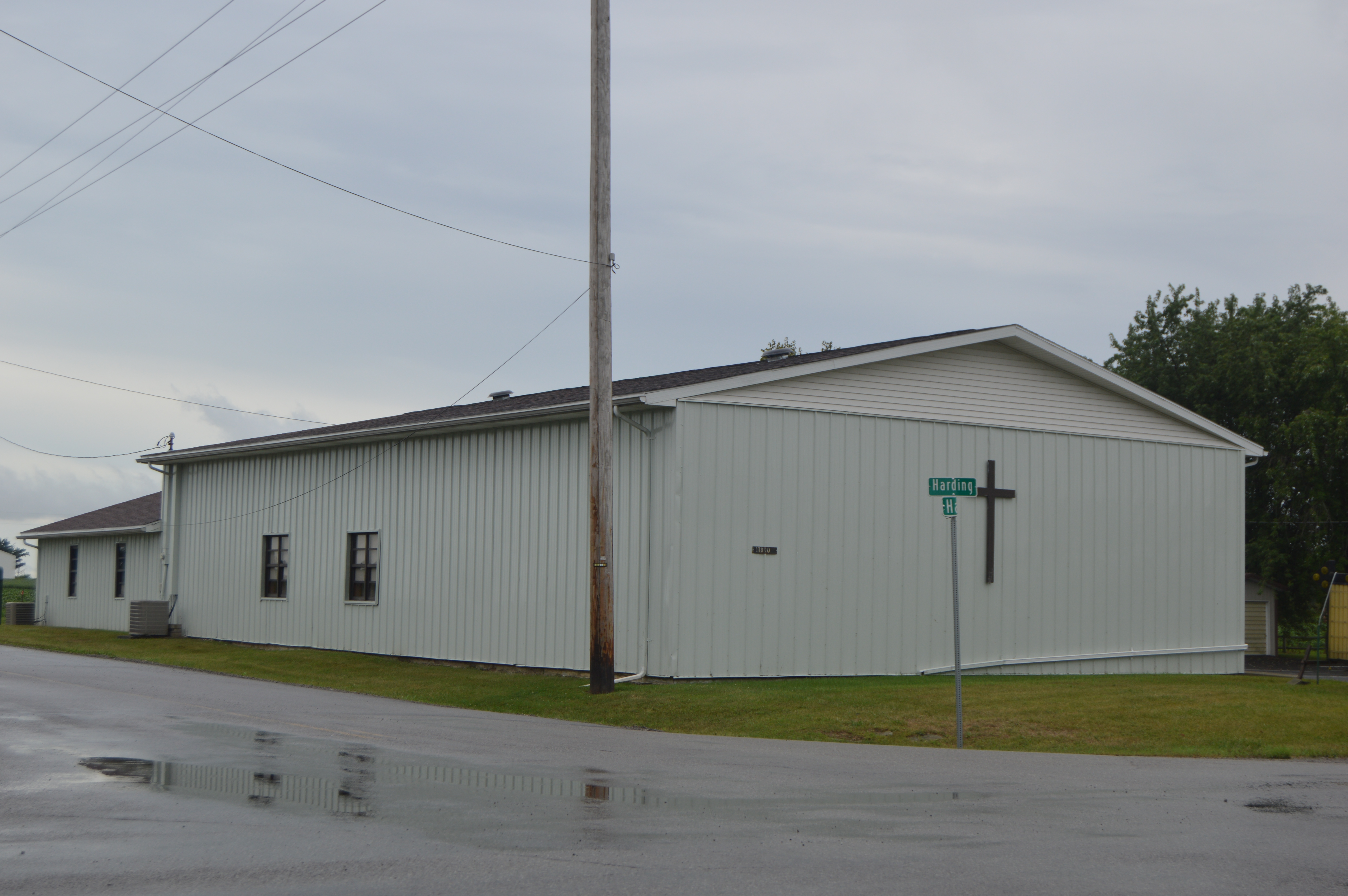 Front and eastern side of the Auglaize United Baptist Church, located at 11890 State Route 309 on the Allen County side of Maysville, Ohio, United States. It was built in 1942.